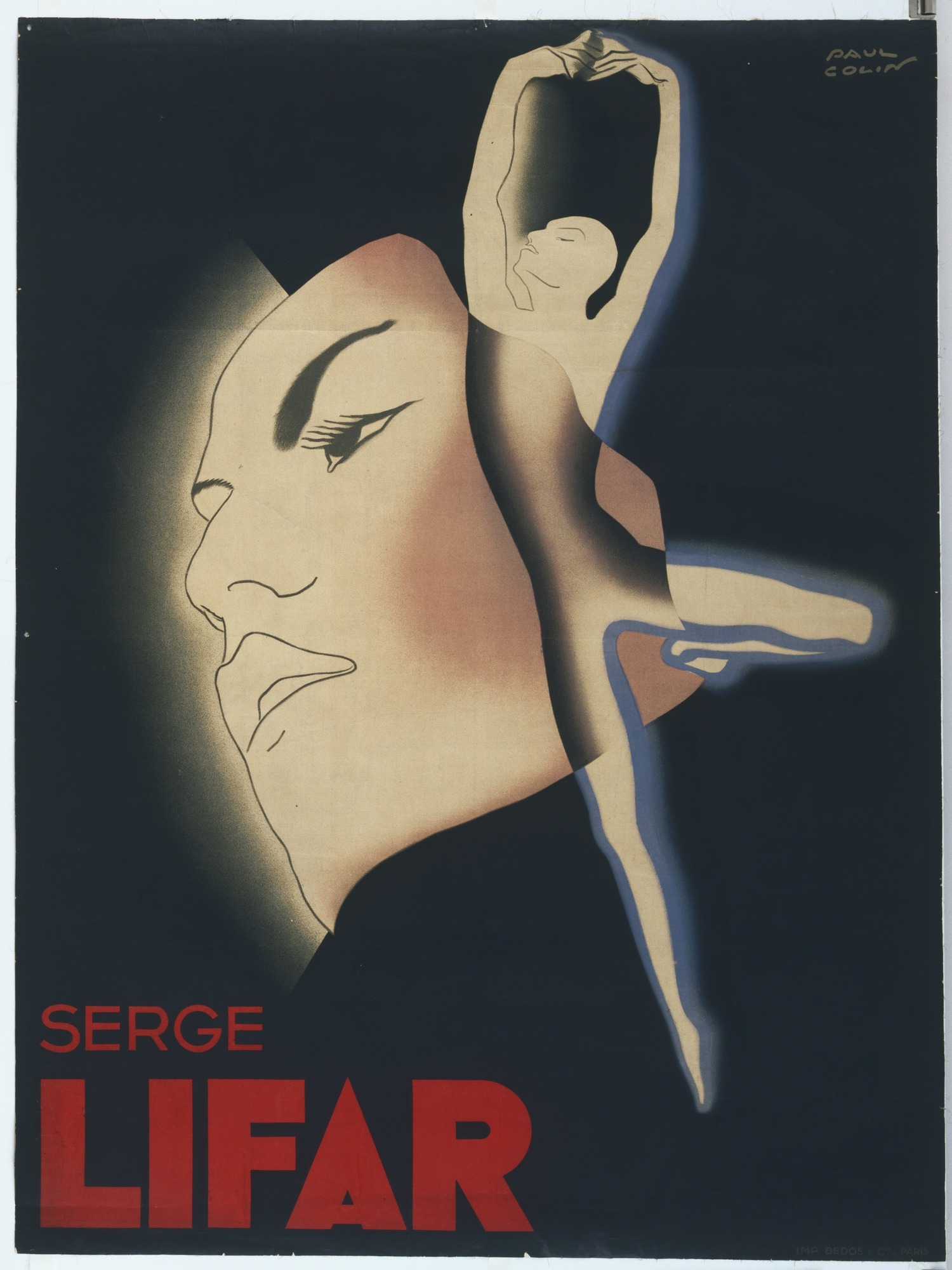 Colin is best known for his Josephine Baker posters, but he designed dozens of posters for the name of show business, as well as travel posters and even some WW II propaganda. Serge Lifar bio 1905-1986 Russian-French dancer and choreographer of exceptional stage presence, who revitalized the Paris Opéra Ballet and was the primary figure of modern French ballet. Born in Kiev, Lifar was a premier dancer in the Ballet Company of the Russian impresario Sergei Diaghilev before becoming director of the Paris Opéra Ballet in 1929. Conveying drama through choreography, he created more than 50 ballets on themes from myth, legend, and history and used male dancers in dominant rather than supporting roles.